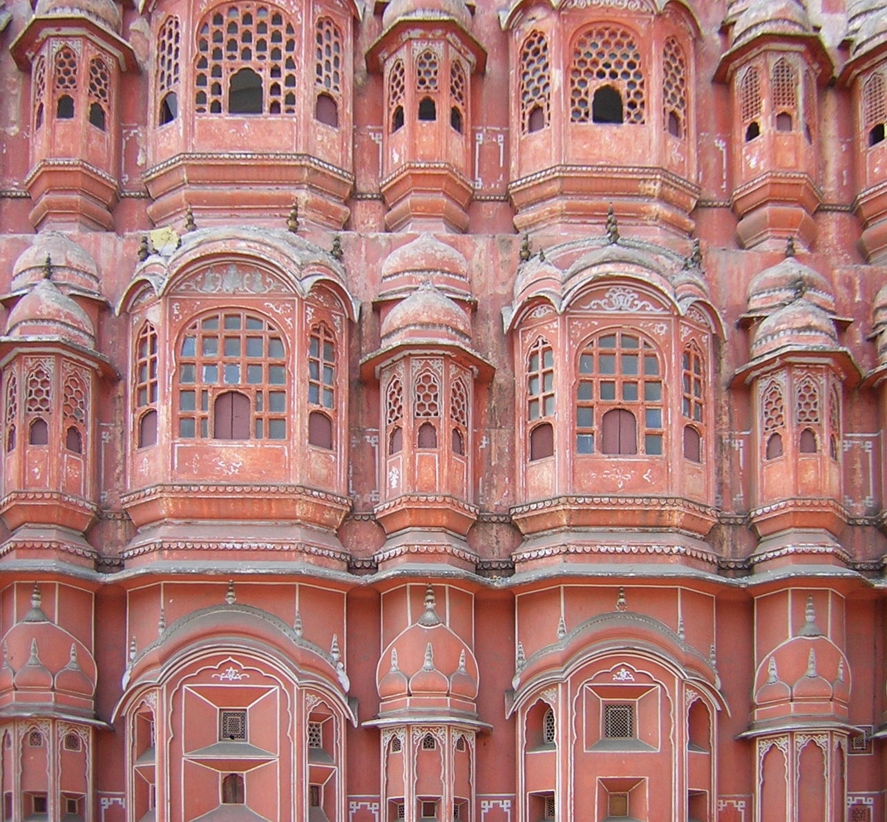 Detail photography of the Hawa Mahal (palace of the wind) in Jaipur. The façade is not in a good condition.